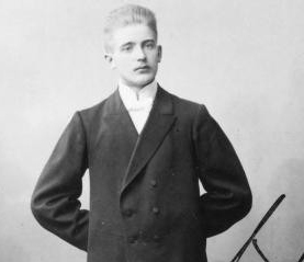 Photograph of the Finnish actor Kössi Kaatra (1882–1928).